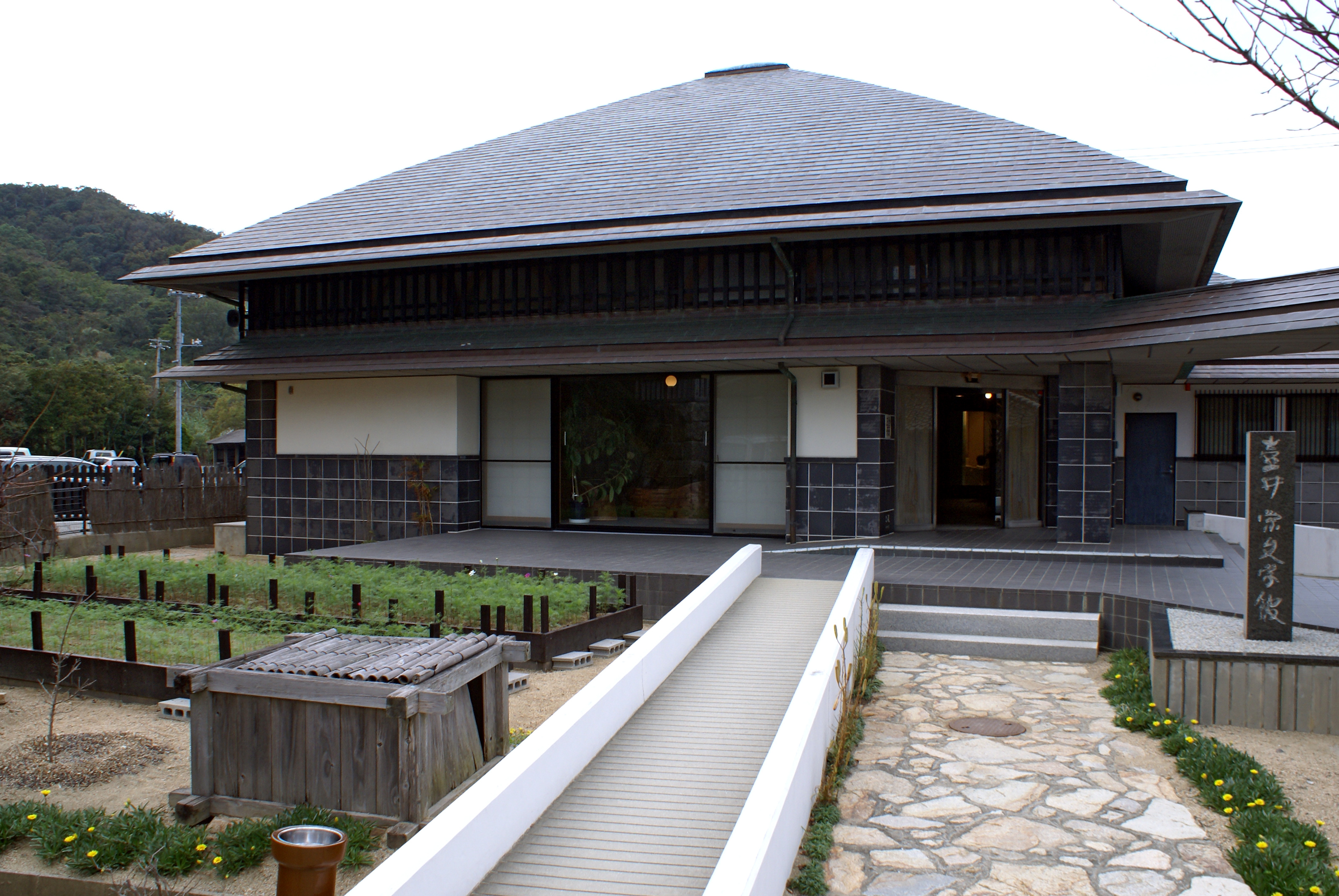 Sakae Tsuboi Memorial Museum on the amusement park of "Twenty-four eyes" in Shodoshima Island, Kagawa Prefecture, Japan)